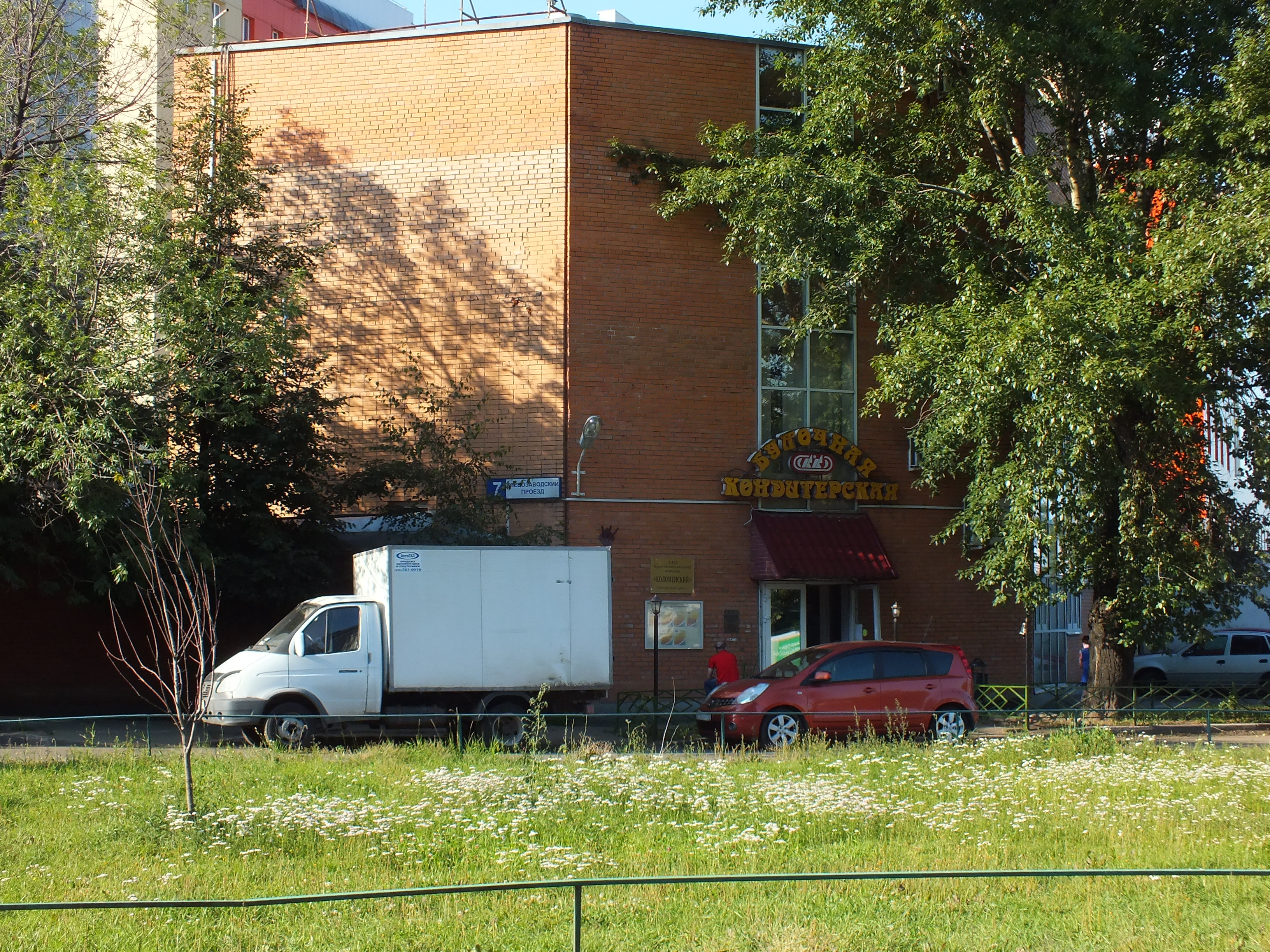 Khlebozavodsky Passage (proyezd), 7